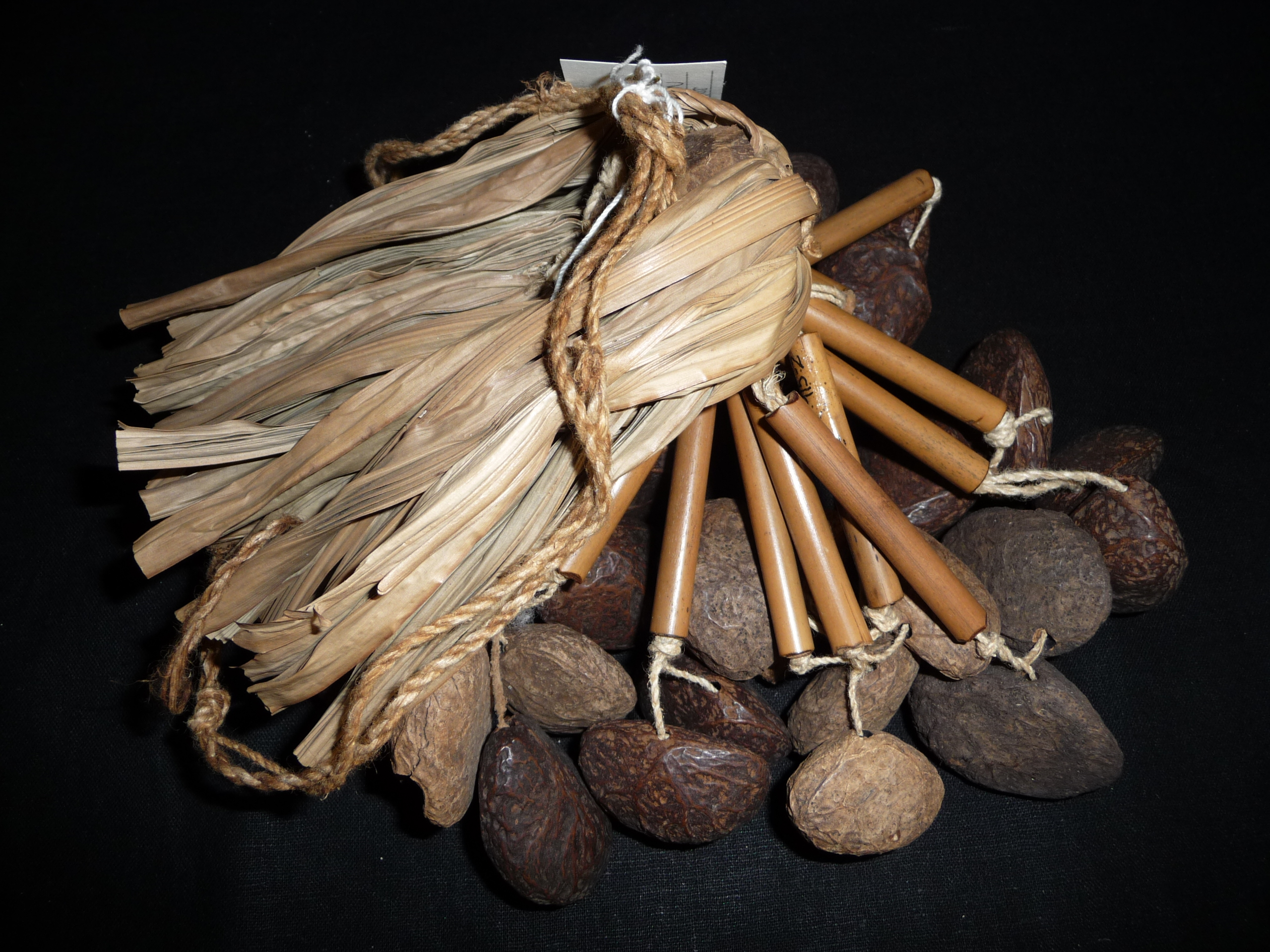 This rattle is made of leaves, seeds and coconut shell. It is tied around a dancer’s ankle and makes a sound when the dancer moves. Object description: This dance rattle is from East Sepik Province in Papua New Guinea. It is about 20 centimetres long and 18 centimetres wide. It was collected in 1982. It is made from 30 seed pods, tied together with a special string made from plant fibre. The cords on this rattle are held together with a piece of coconut shell. History: A rattle is a type of musical instrument known as an idiophone. This means it makes its sound by being shaken and jiggled. Sometimes, rattles like these form part of traditional dress, and are tied to the ankles of people who are dancing in traditional ‘singsings’. (A singsing is a special gathering where people perform traditional dances and songs.)